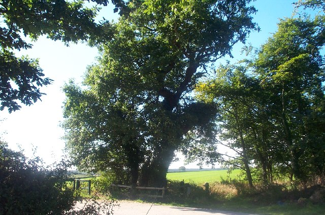 Parliament Oak. Tree known as the Parliament Oak at the side of the A6075, Peafield Lane.